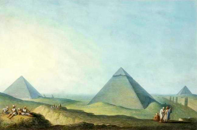 View of the Great Pyramid of Giza , watercolor, 35 by 54 cm